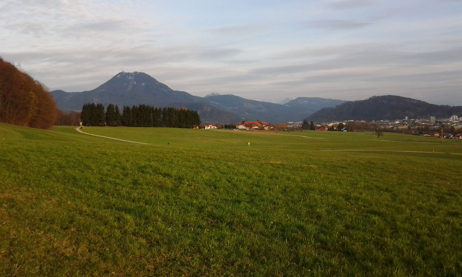 On mountain Plainberg, municipality of Bergheim, district of Salzburg, Austria; view to the east; in the background: city of Salzburg and mountain Kapuzinerberg (far right)